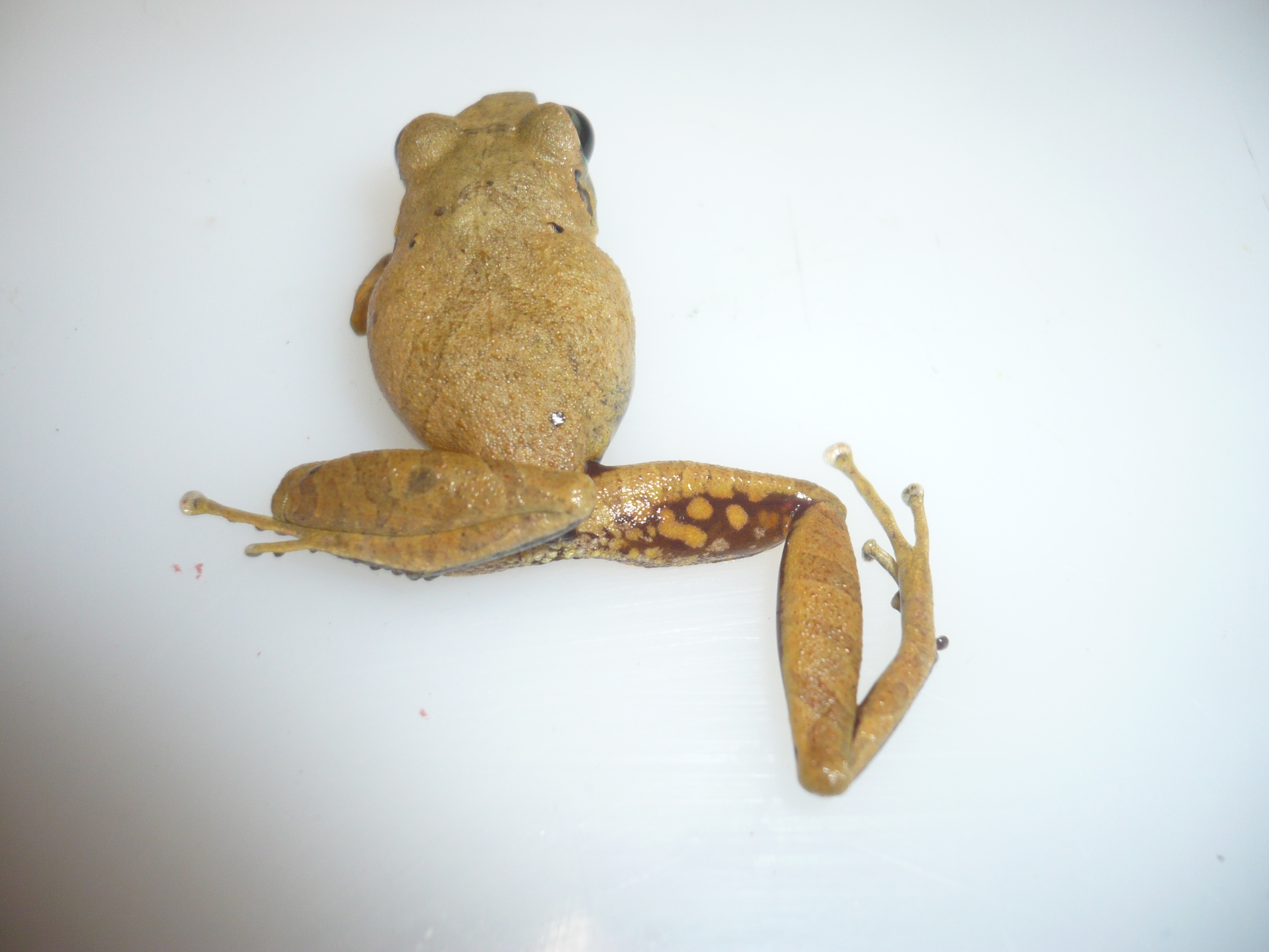 Pristimantis reichlei in Madre de Dios (Peru). Breeding male.